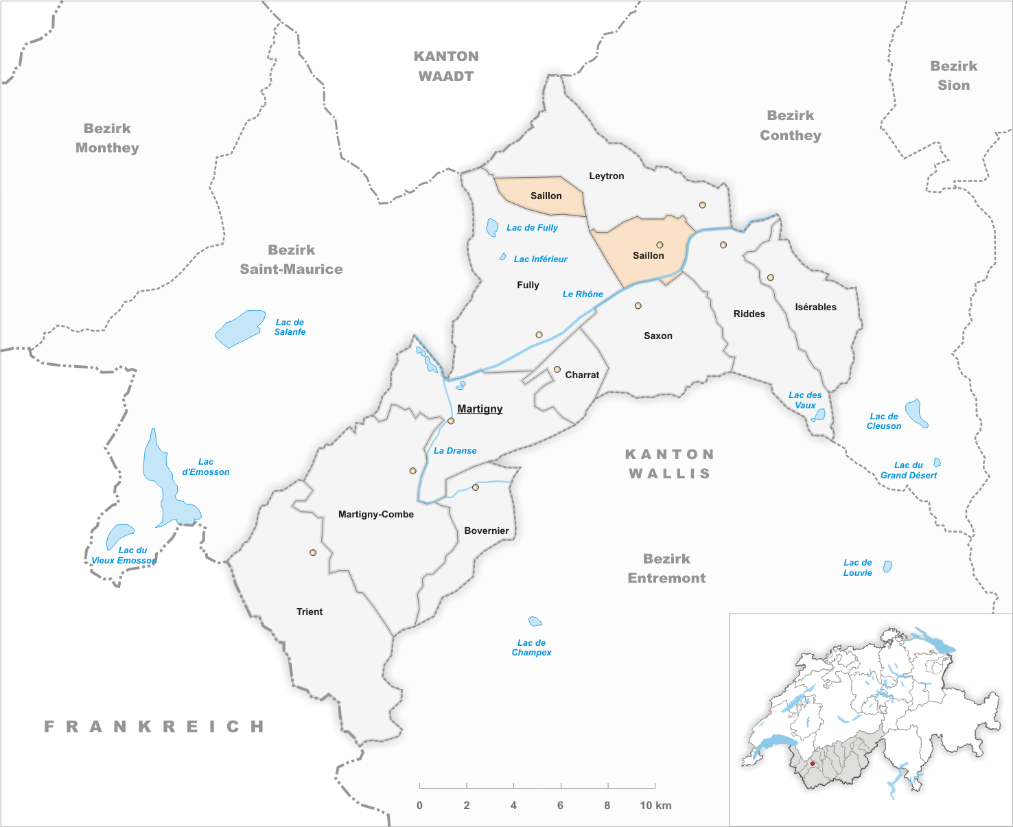 Municipality Saillon